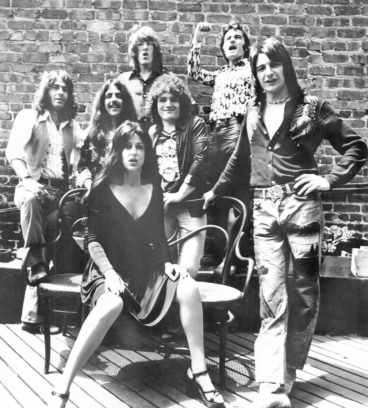 1976 group photo of Jefferson Starship.